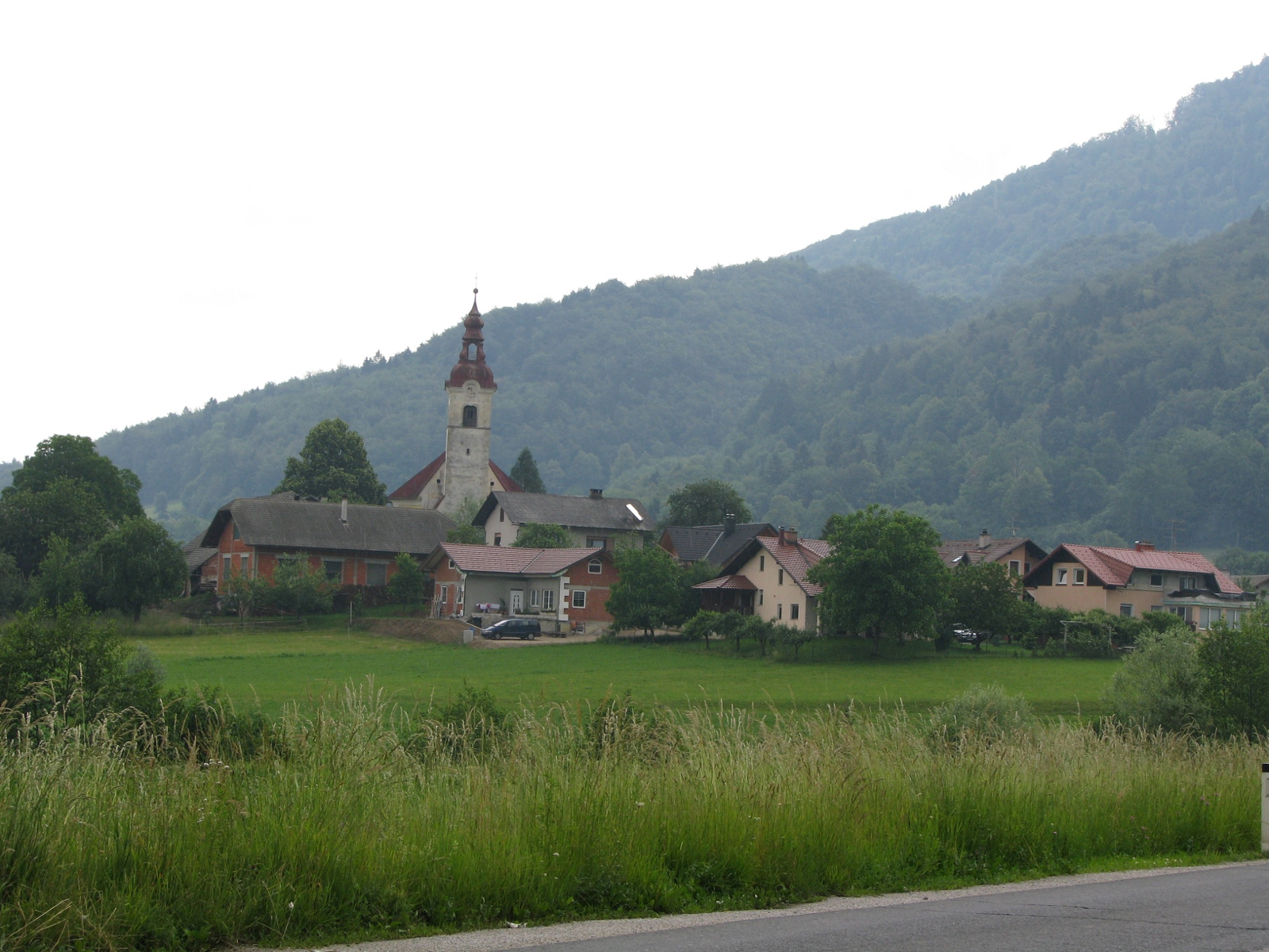 Village of Drtija, photo taken from road Moravče-Kandrše.